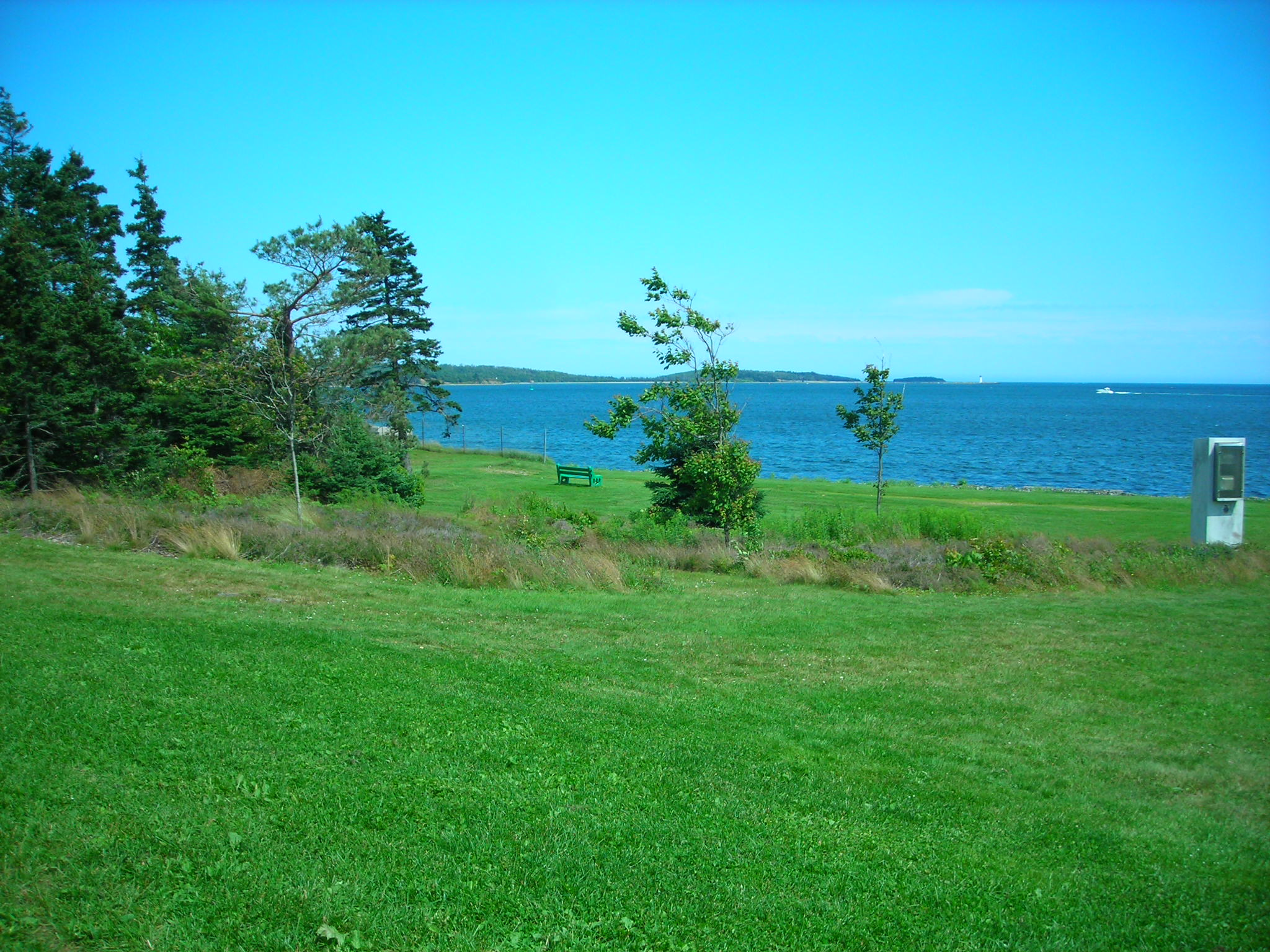 The south side of Point Pleasant Park in Halifax, Canada. In the background beyond the sea one can see McNabs Island. In high resolution one can see - very small - the white lighthouse on it.